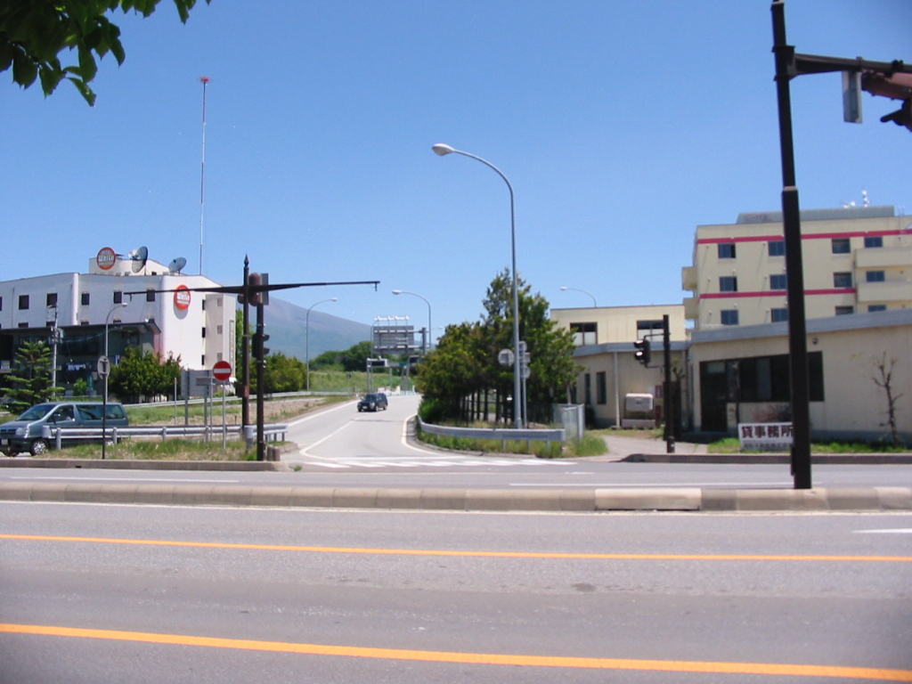 Exit rampway of Saku Interchange on the Joshin'etsu Expressway